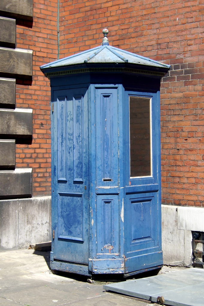 A little police box, snuggling next to the church near Covent Garden